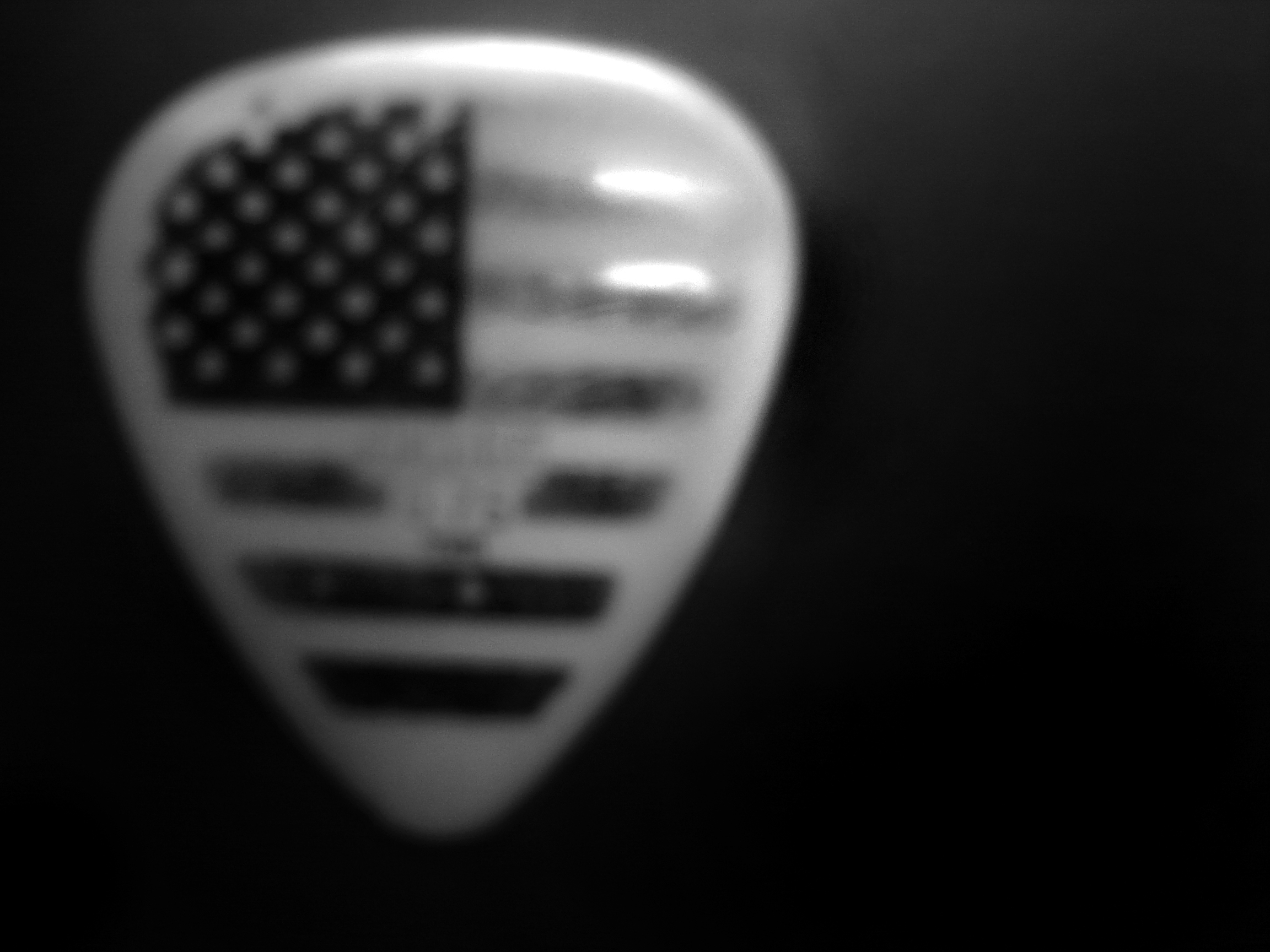 Guitar pick with the flag of the U.S.A.